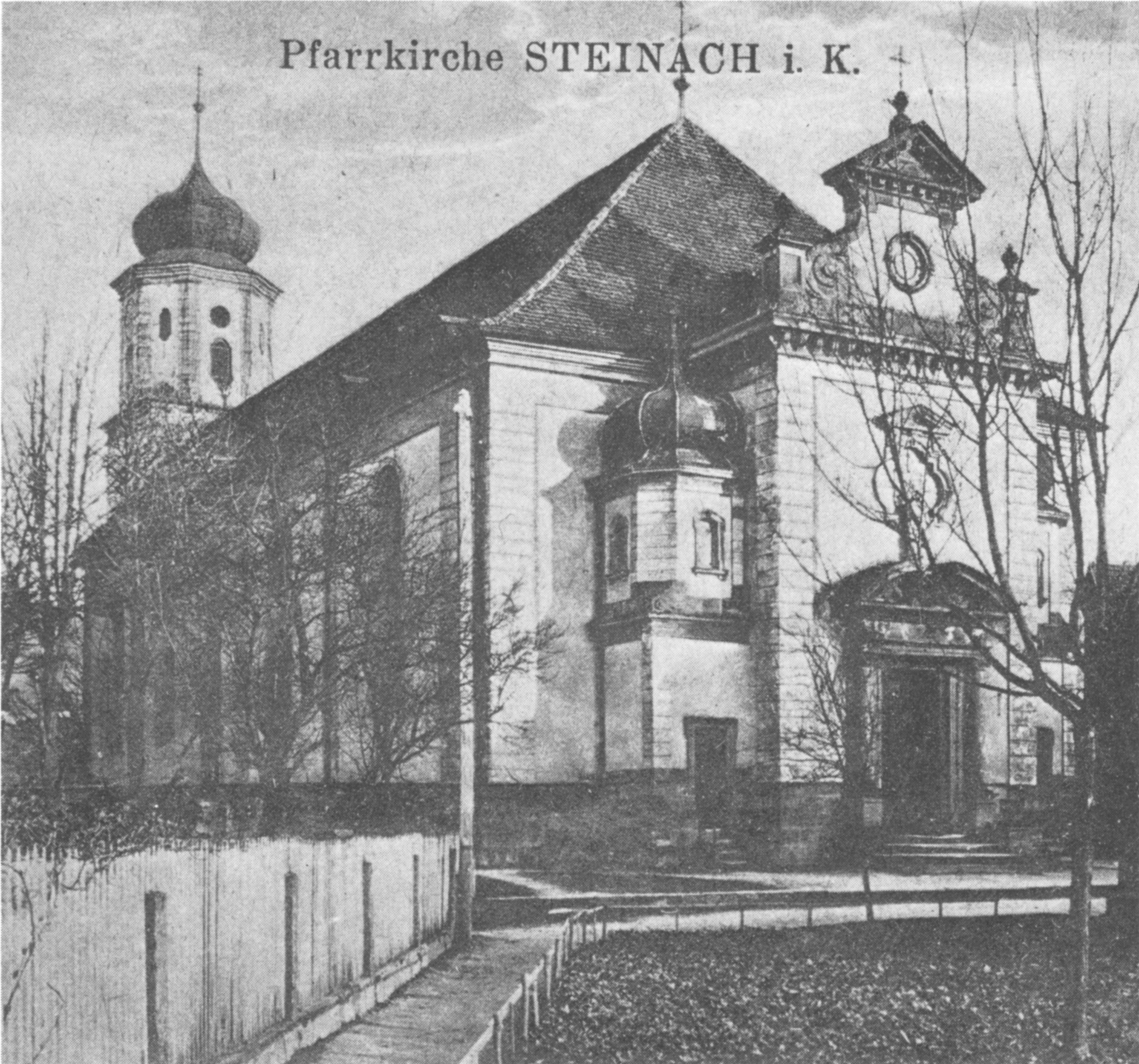 Parish church "Kreuzerhöhung" in Steinach, Ortenaukreis, Baden-WÜrttemberg, Germany, around 1900